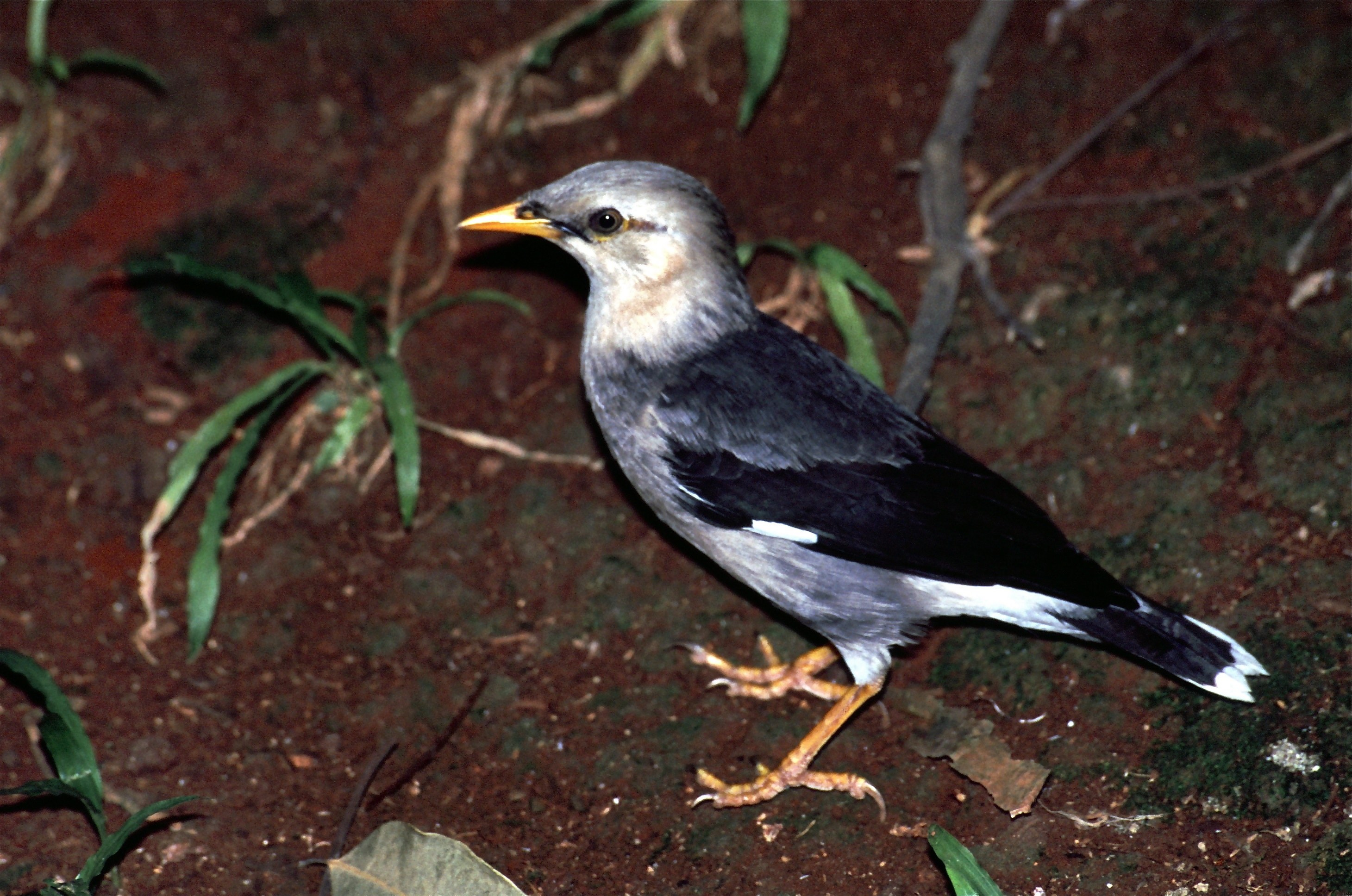 Bird Park, Wisata Bogor, Java, INDONESIA Scanned Slide from 2003